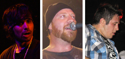 The current members of American heavy metal band CKY: Chad I Ginsburg, Jess Margera and Matt Deis. Derivative work of other files uploaded under Creative Commons licences allowing remix.